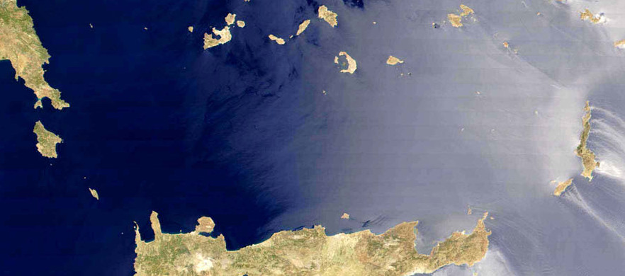 Satellite picture of Cretan Sea (Sea of Crete).